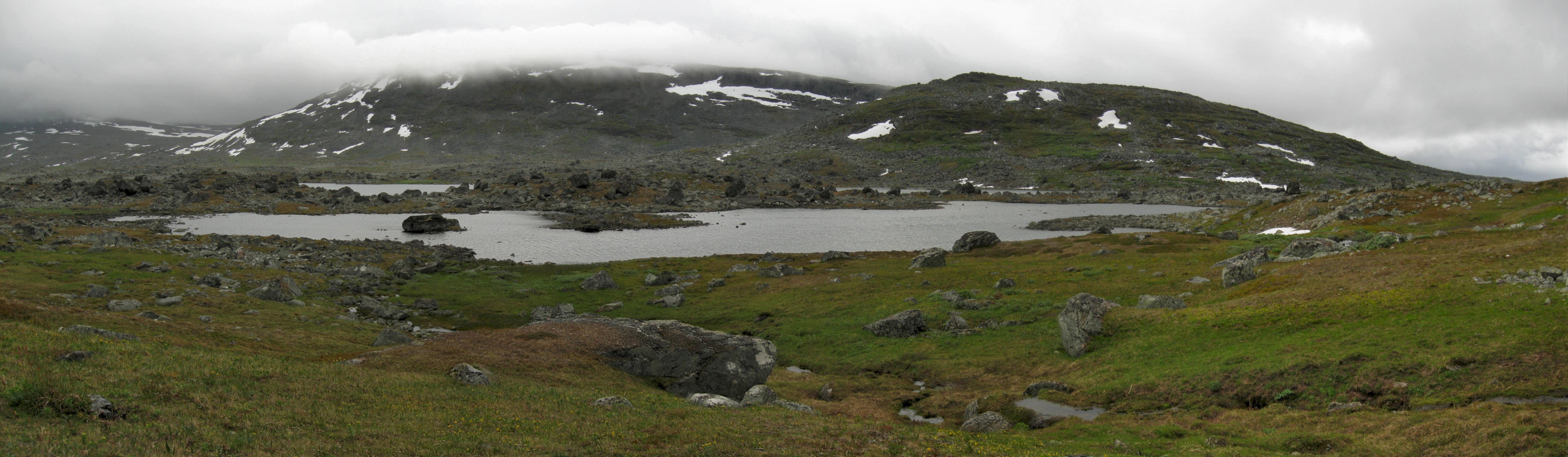 Lake Nuortap Adtji, in Stora Sjöfallet National Park. 26 July 2012, 15:38. Location approx: N67 31.277 E17 57.181 / WGS84.